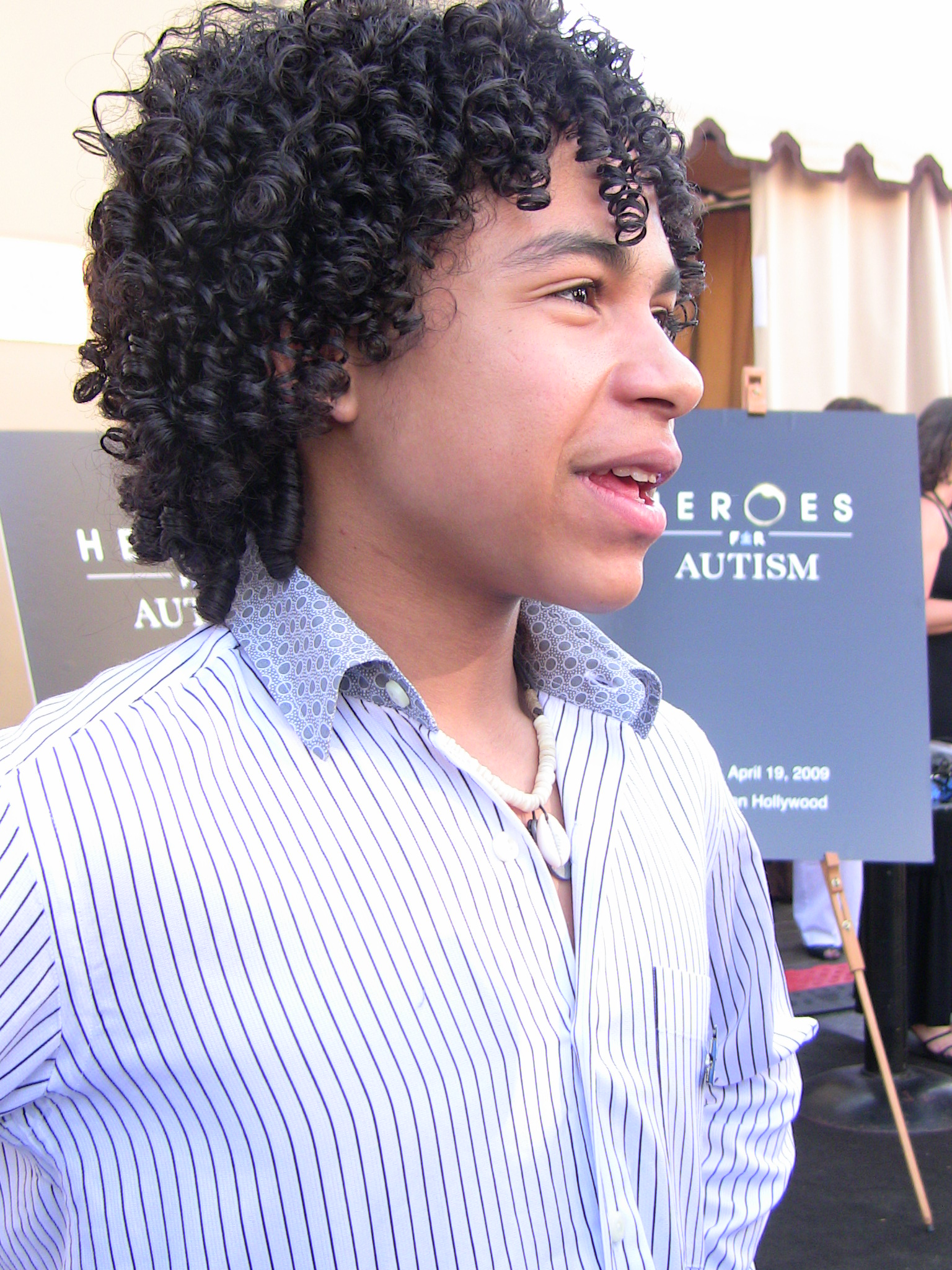 Actor Noah Gray-Cabey at Heroes for Autism event, Hollywood, California.